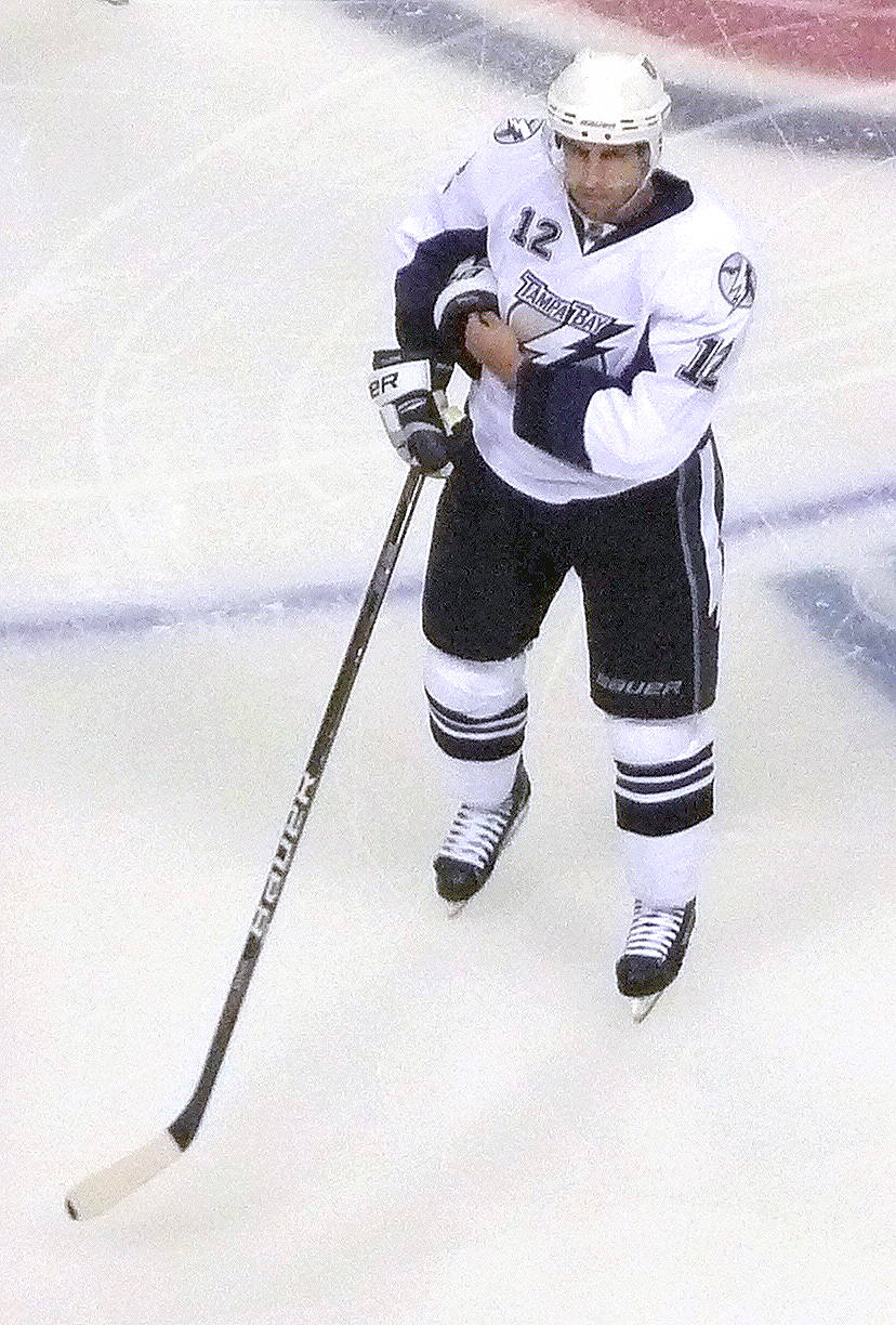 Simon Gagne of the Tampa Bay Lightning skates during a game against the Montreal Canadiens at the Bell Centre in Montreal, Quebec.